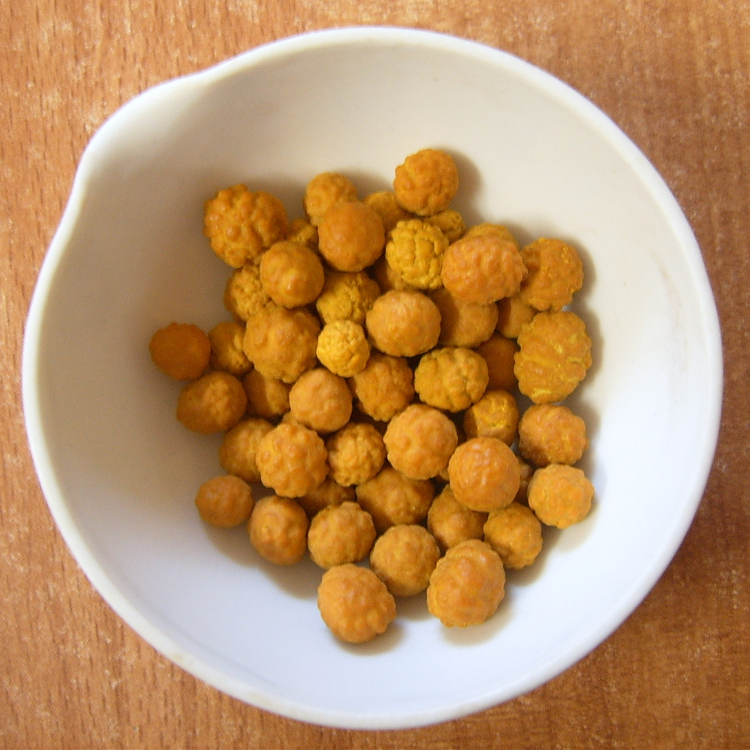 Granulated iron(III) chloride hexahydrate